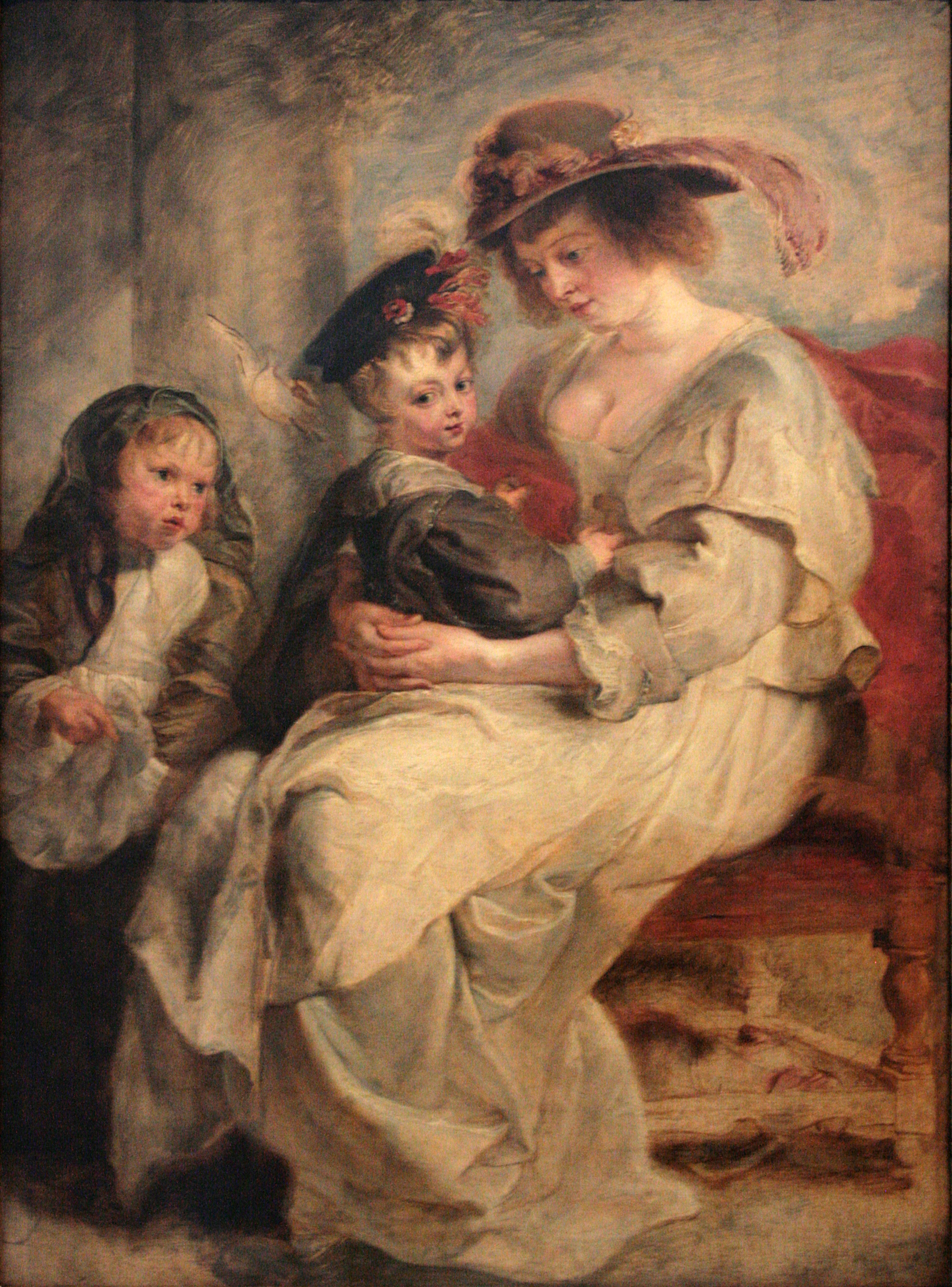 Portrait of Helena Fourment (1614-1673) with two of her children Alternative title(s): Helena Fourment with her Children, Clara, Johanna and Frans.